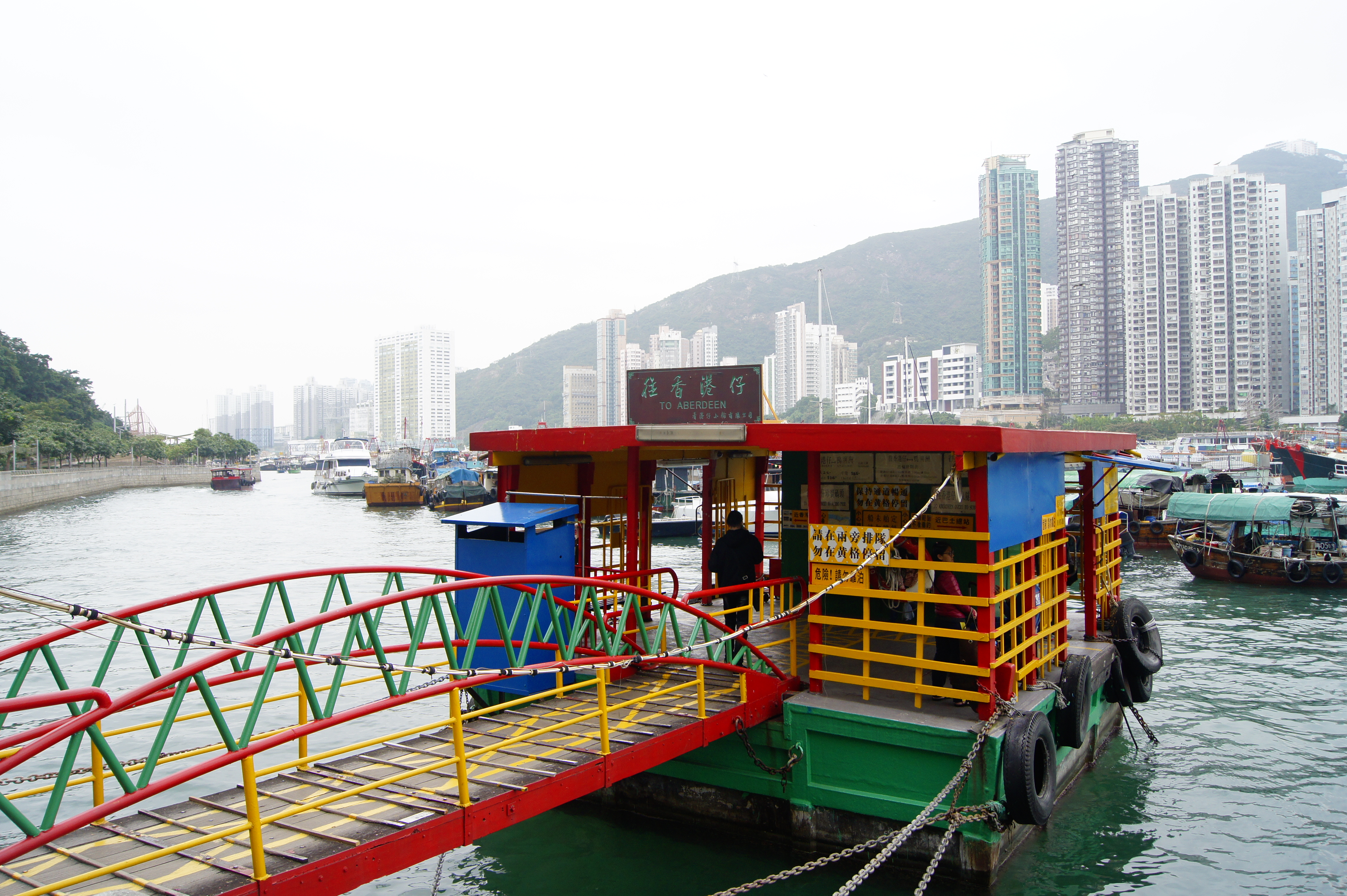 Ap Lei Chau Kai-to Pier